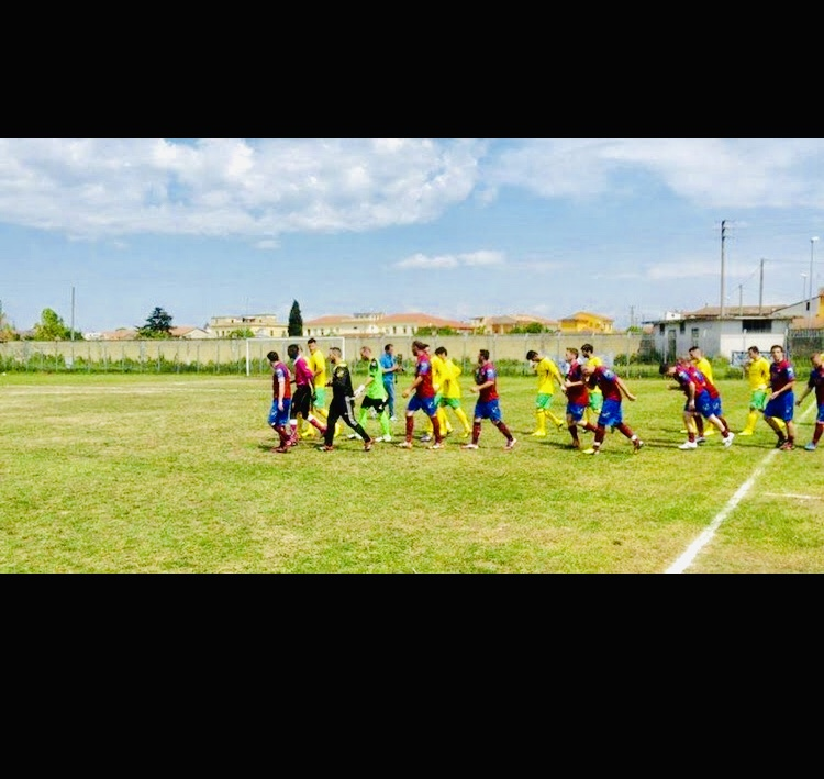 Stadio comunale